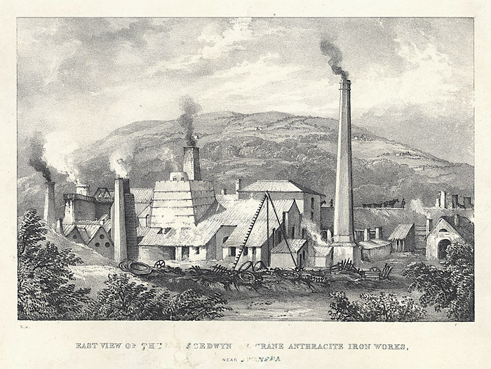 A view of iron works near Swansea. Numerous buildings can be seen and also some smokestacks.